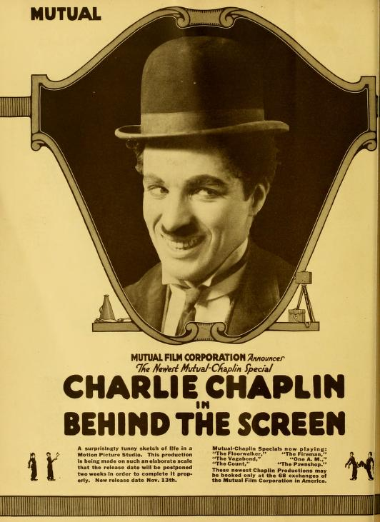 Advertisement in Moving Picture World